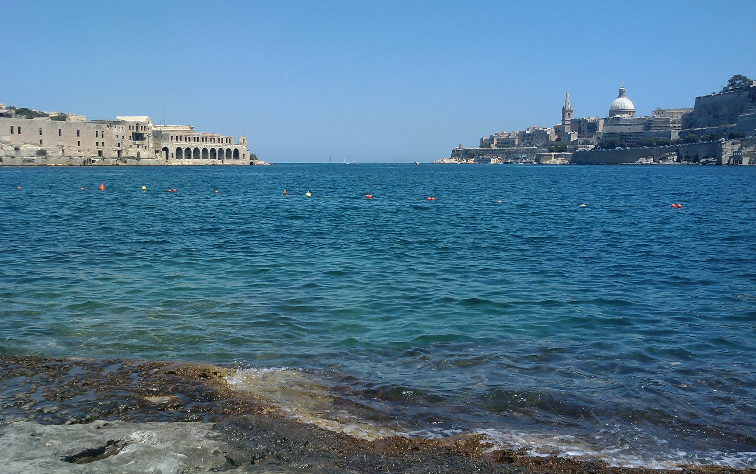 View from Ix-Xatt Ta'Xbiex in Ta'Xbiex to Manoel Island, Gżira (LH) and Valletta (RH)